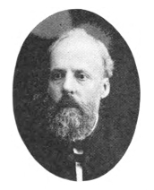 Portrait